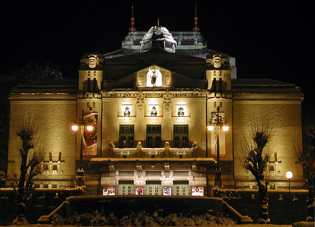 Den Nationale Scene Bergen, Norway Norsk (bokmål): Den Nationale Scene Bergen, Norge